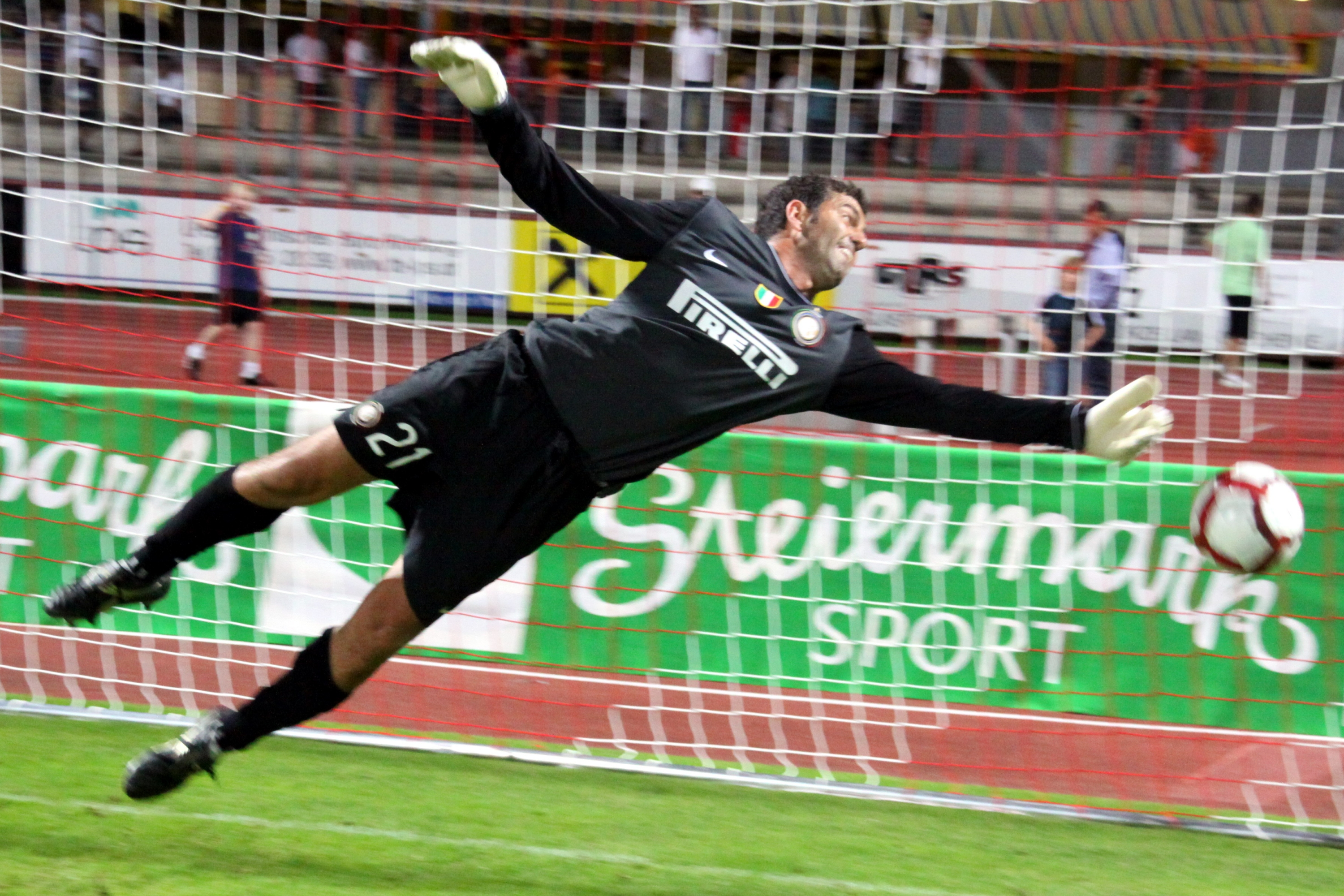 Paolo Orlandoni - F.C. Internazionale Milano.